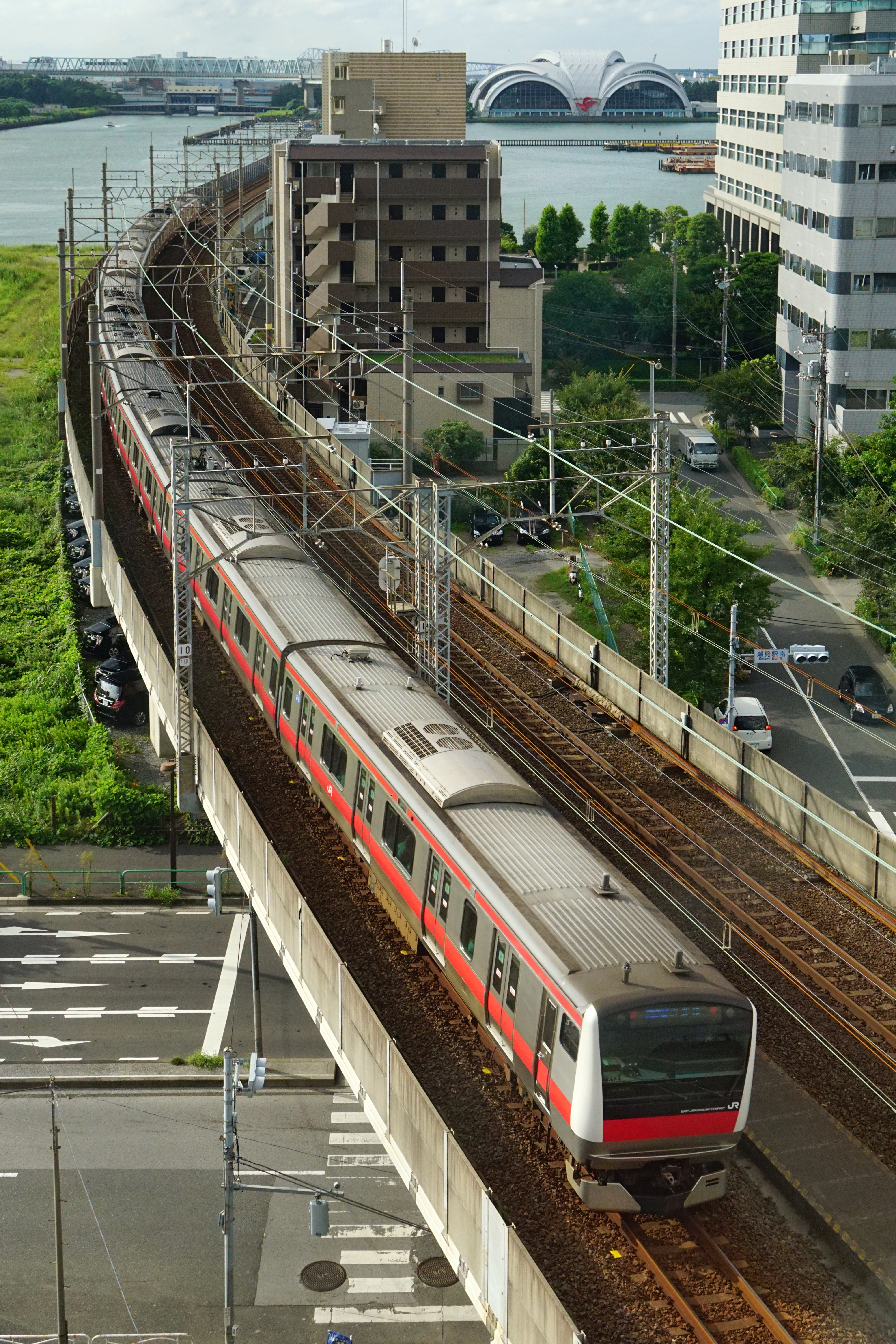 JR East E233-5000 series EMU set 514 on a Keiyo Line service in Koto, Tokyo, Japan